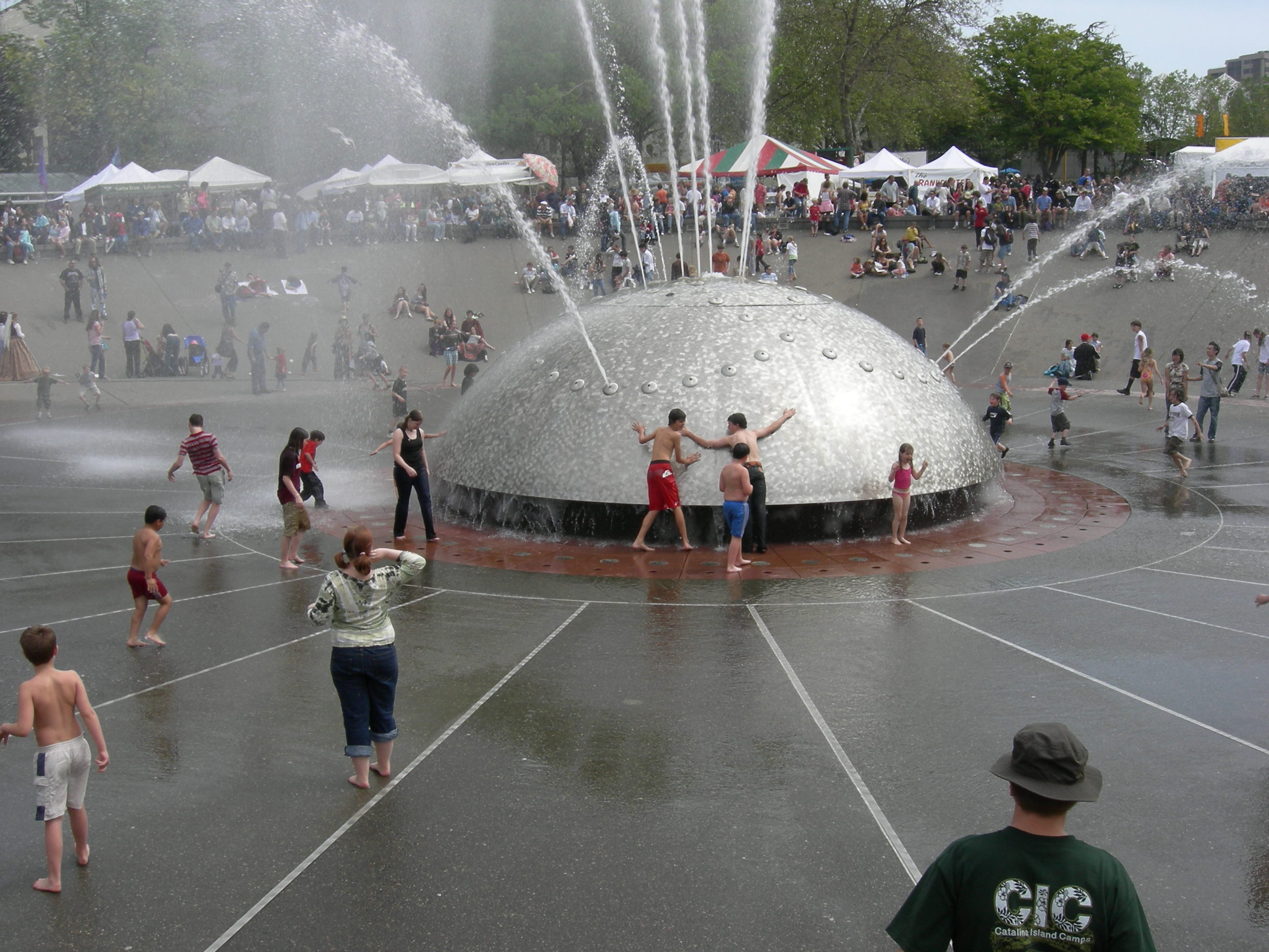 Children playing in Seattle Center's International Fountain during Northwest Folklife Festival.